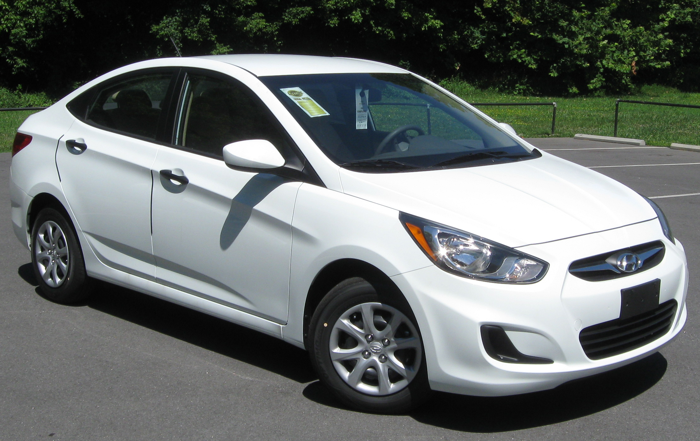 2012 Hyundai Accent photographed in College Park, Maryland, USA.